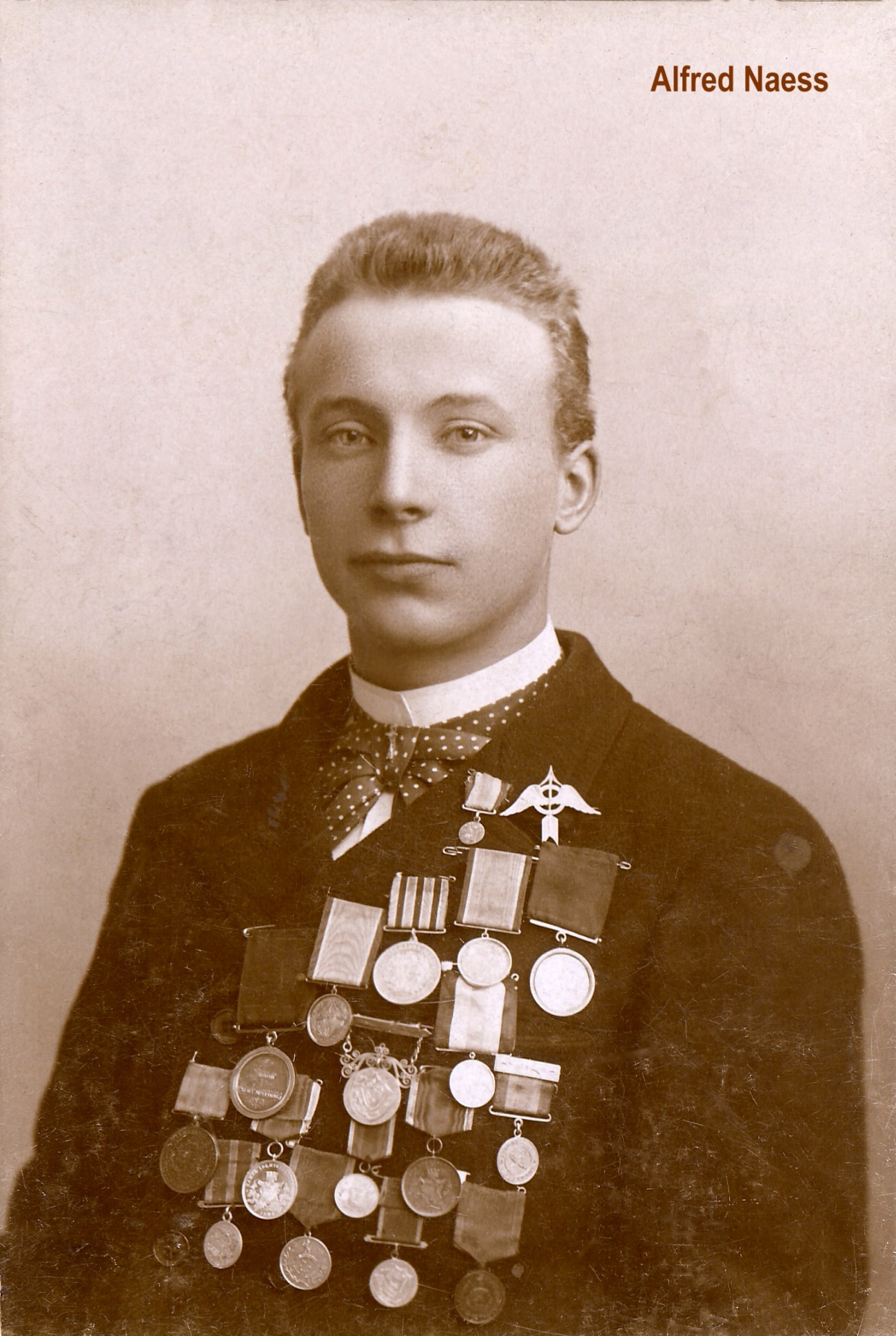 Alfred Ingvald Naess circa 1900 wearing his skating medals.